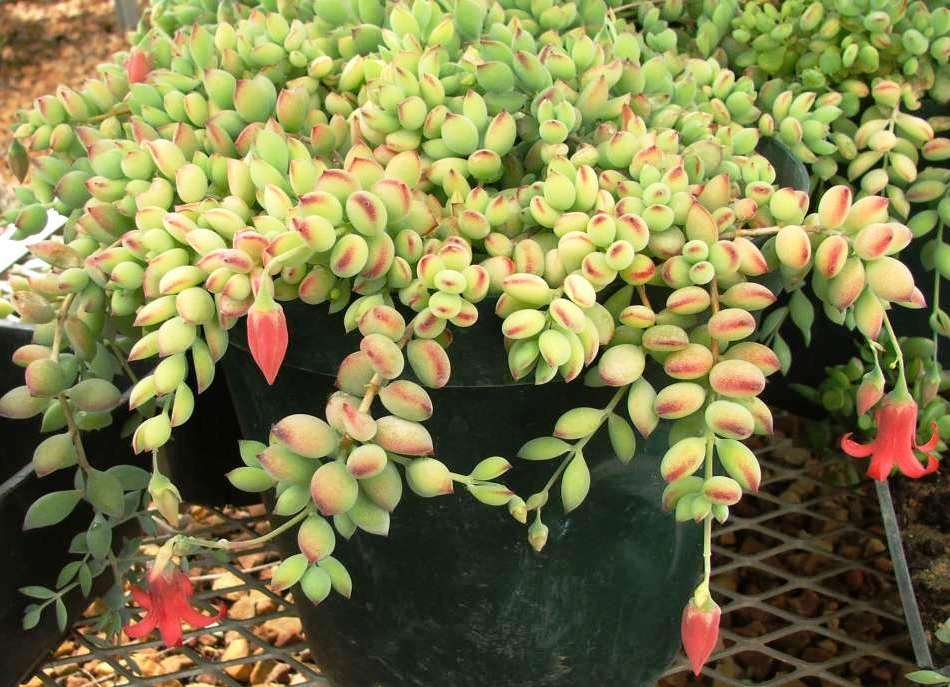 Cotyledon pendens succulent. South Africa.